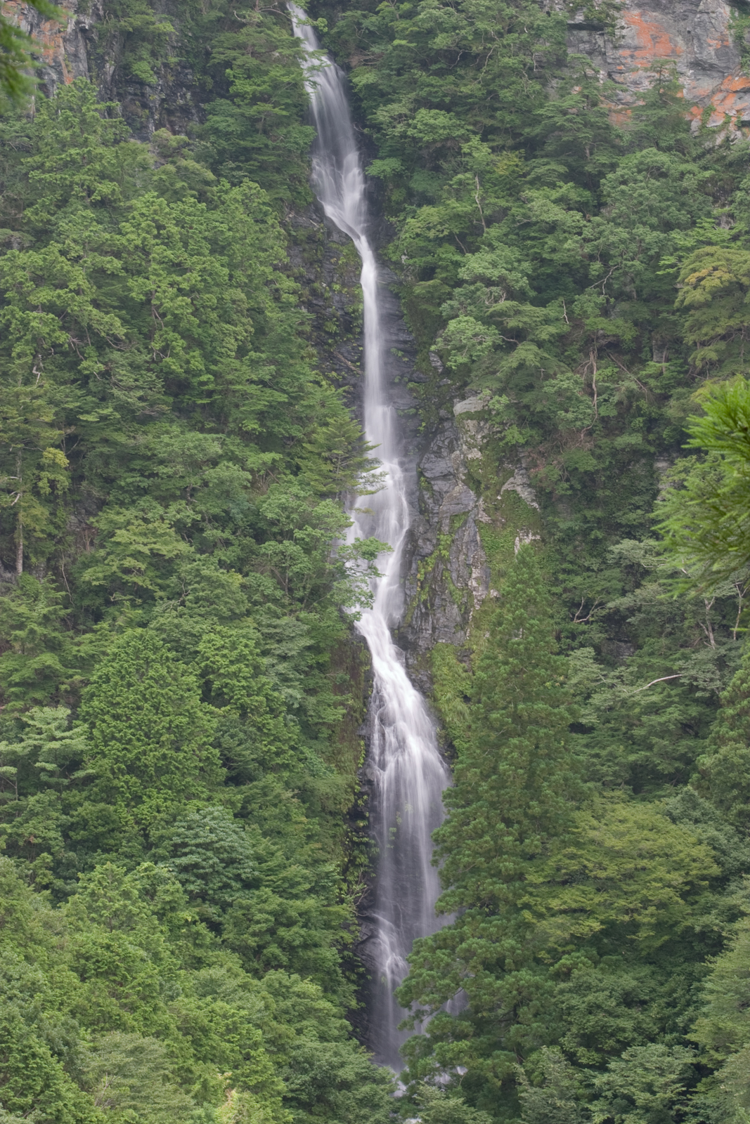 Akataki Falls (a.k.a. Aka Falls) in Motoyama, Kochi Prefecture, Japan.